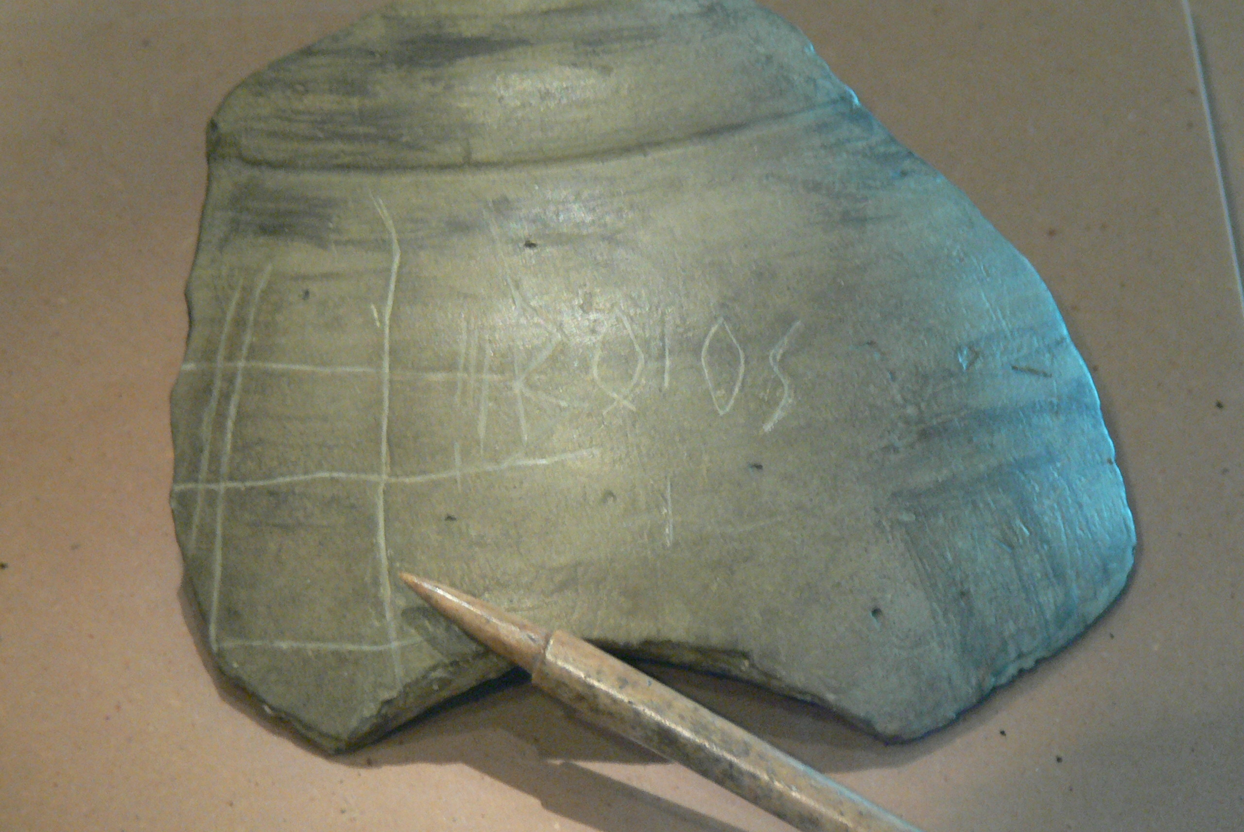 Celtic Museum Manching ( Bavaria ). Celtic inscription BOIOS on ceramic fragment with stylus.